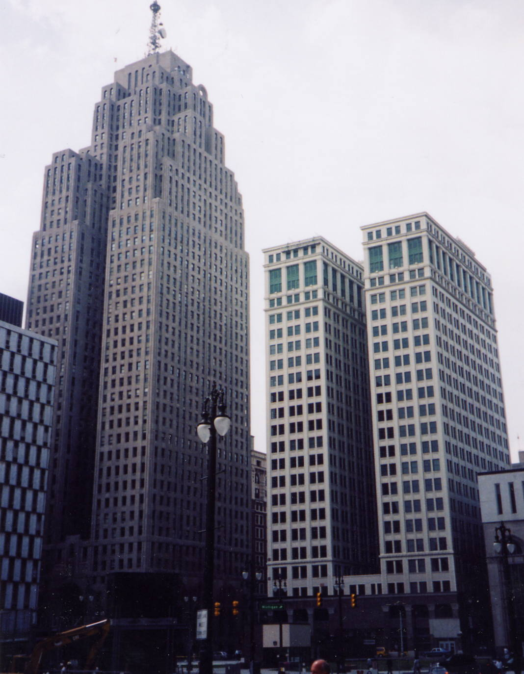 Penobscot Building at left. At right, the Dime Building, constructed in 1912.